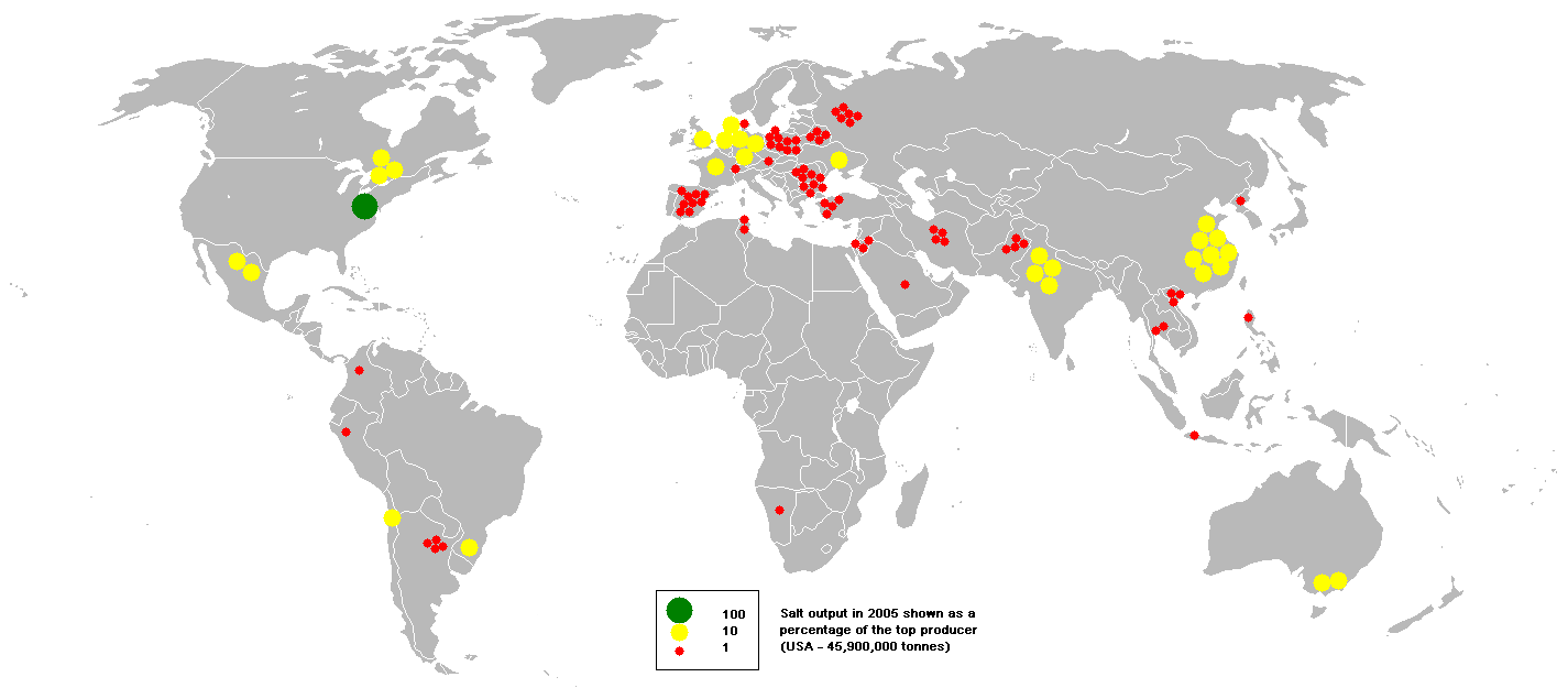 This bubble map shows the global distribution of (unrefined) salt output in 2005 as a percentage of the top producer (USA - 45,900,000 tonnes). This map is consistent with an incomplete set of data too as long as the top producer is known. It resolves the accessibility issues faced by colour-coded maps that may not be properly rendered in old computer screens. Data was extracted on 1st June 2007. Source - Based on Image:BlankMap-World.png